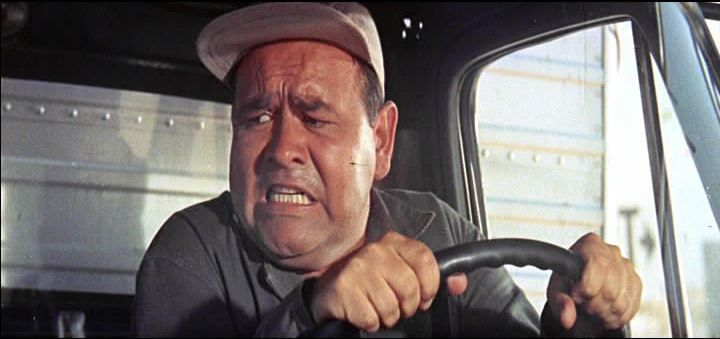 Jonathan Winters as a truck driver